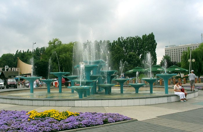 a fountain in Gdynia, Poland